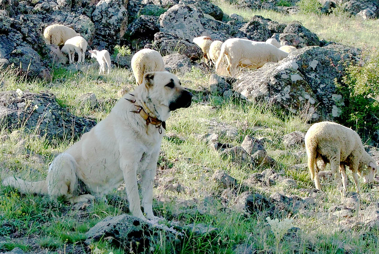 Kangal in Turkey with sheep